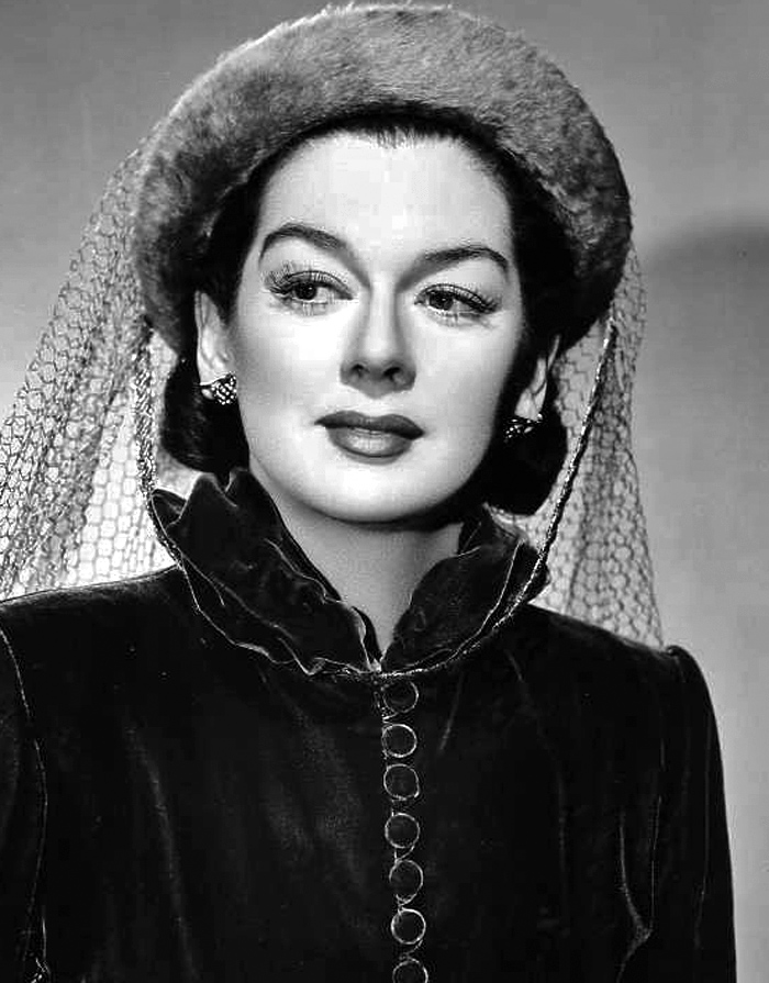 Publicity photo of Rosalind Russell in A Woman of Distinction